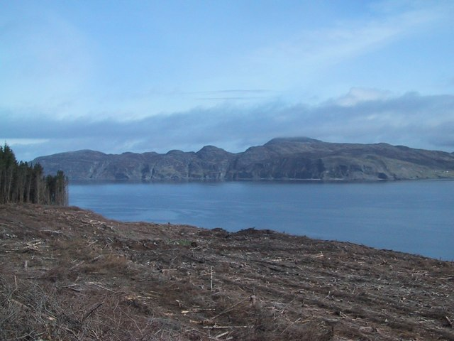 Clear Felling at Bloody Bay